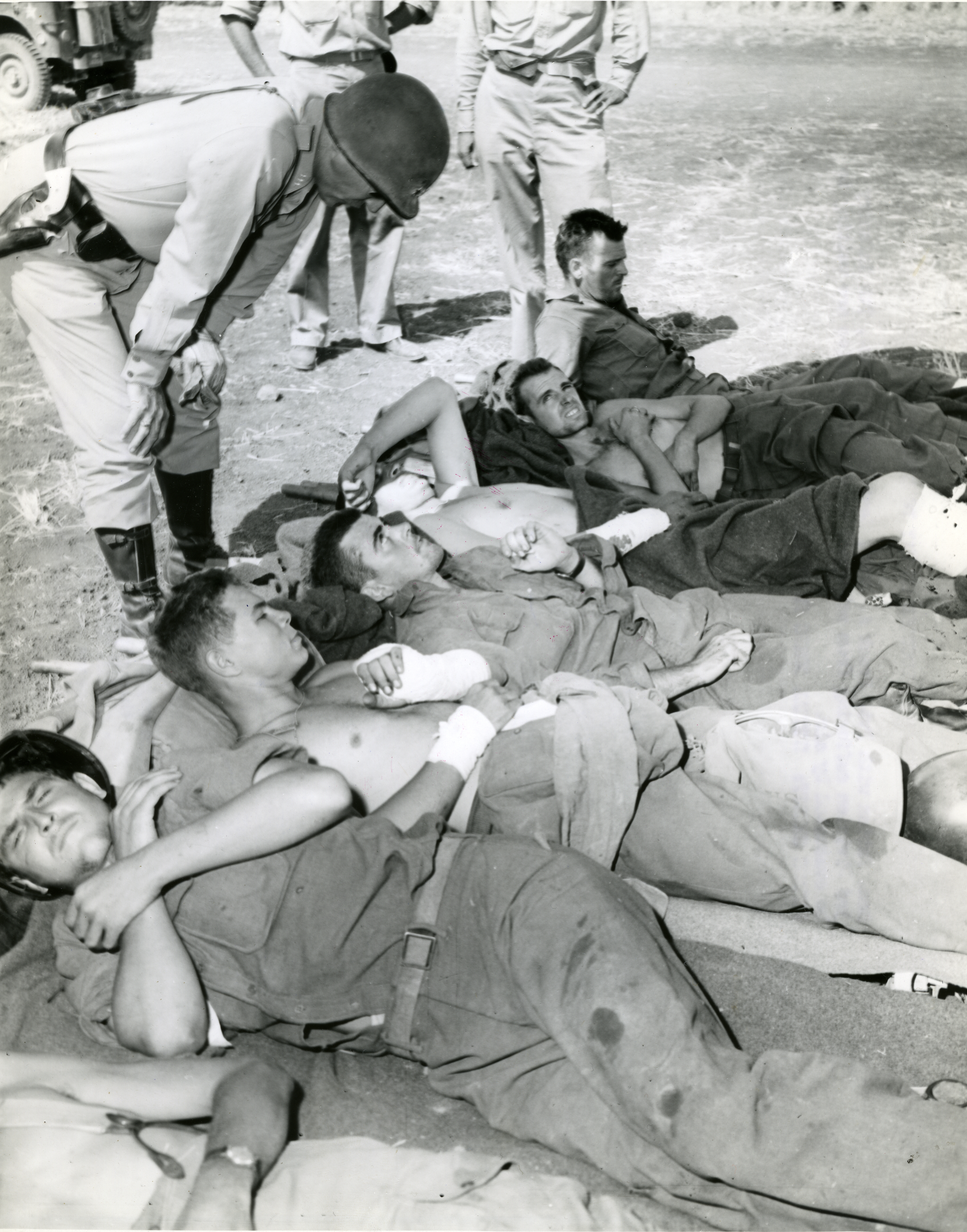 Wounded on Way to Hospital General Patton with Pvt. Frank A. Reed, East Dephon Mass, 7th Infantry 3rd Division suffering from shrapnel wound. Casualties are waiting to be evacuated by air.